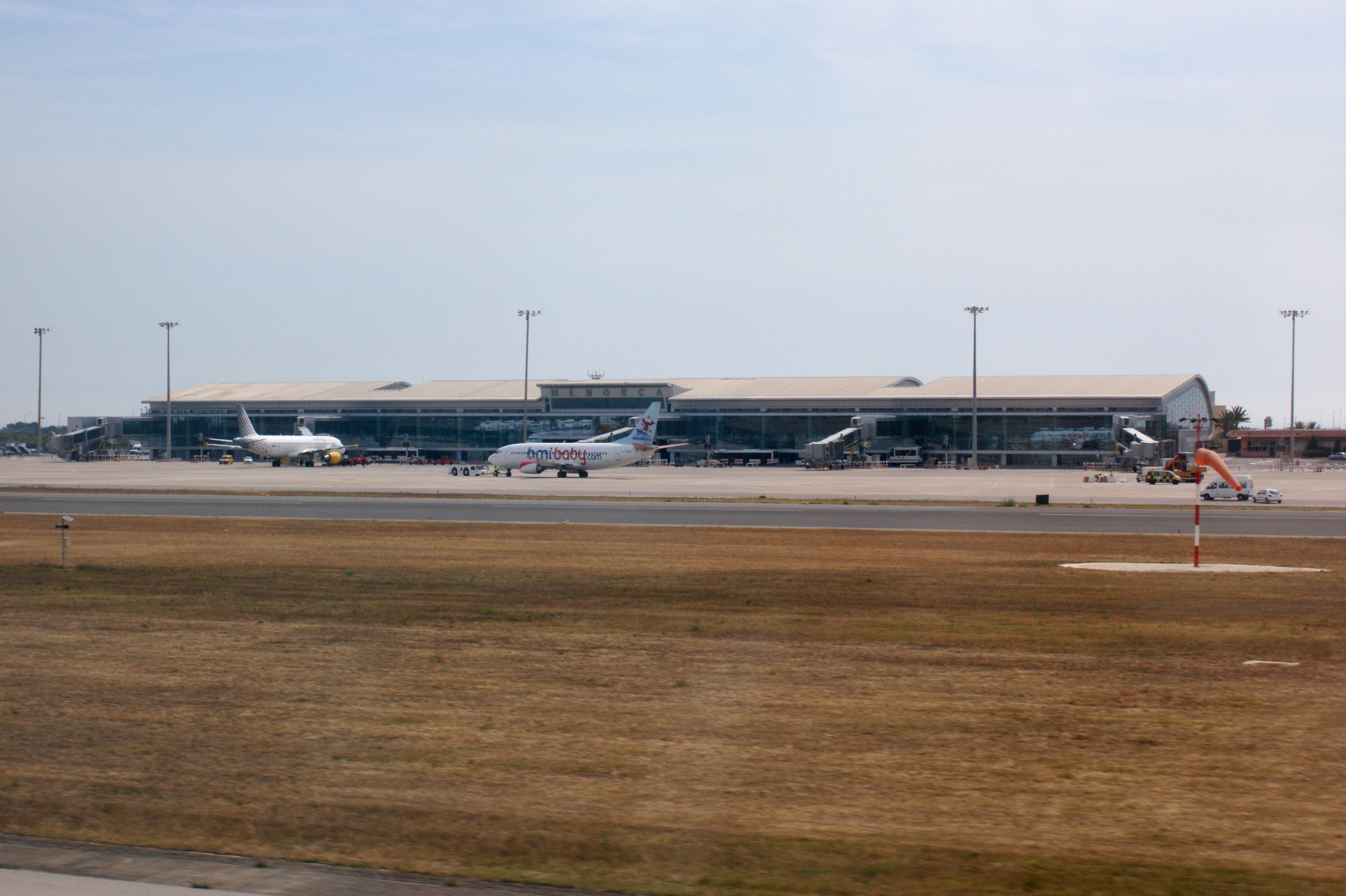 Menorca Airport in May 2012.